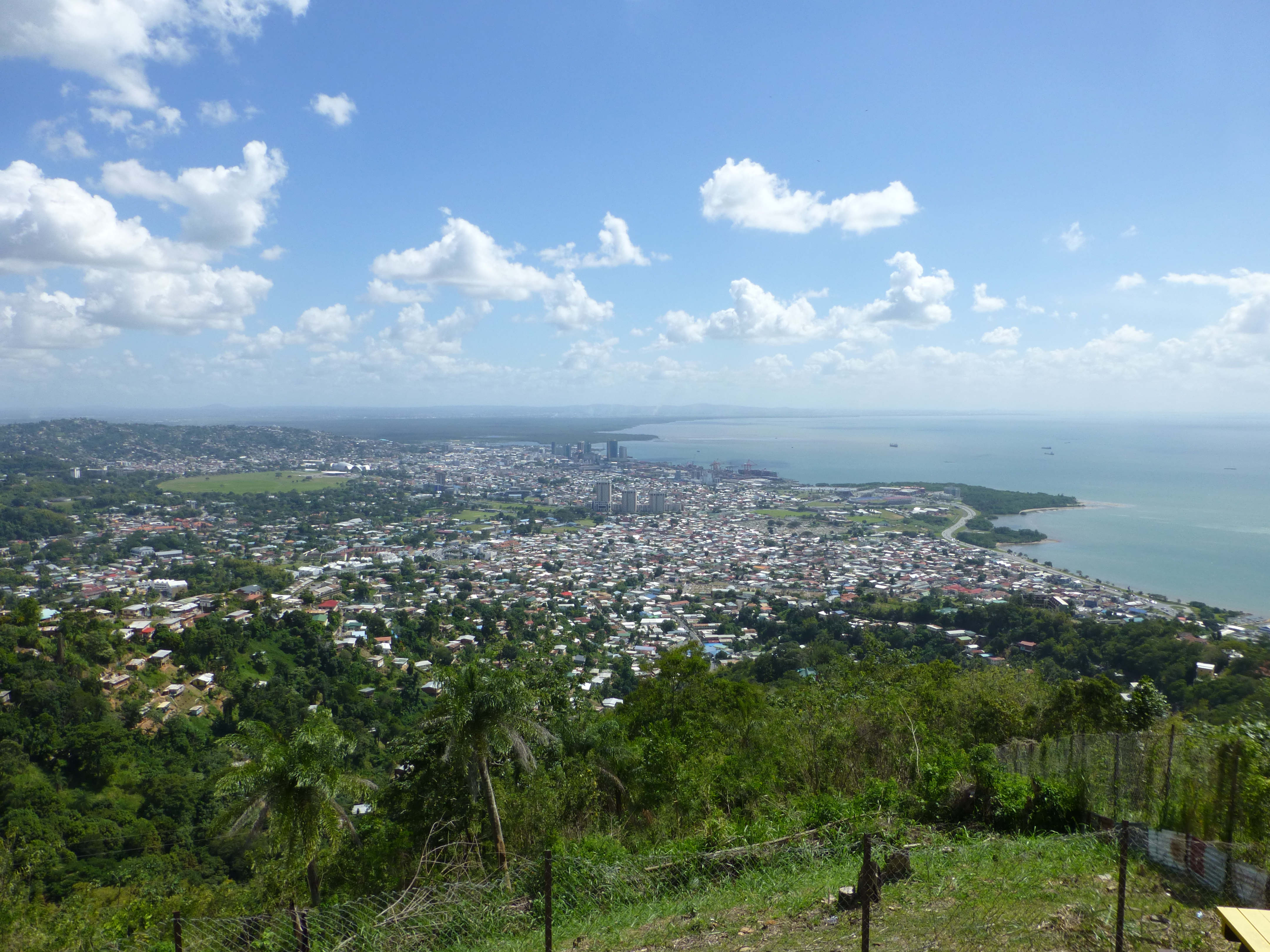 Port of Spain, Trinidad, seen from Fort George hill.